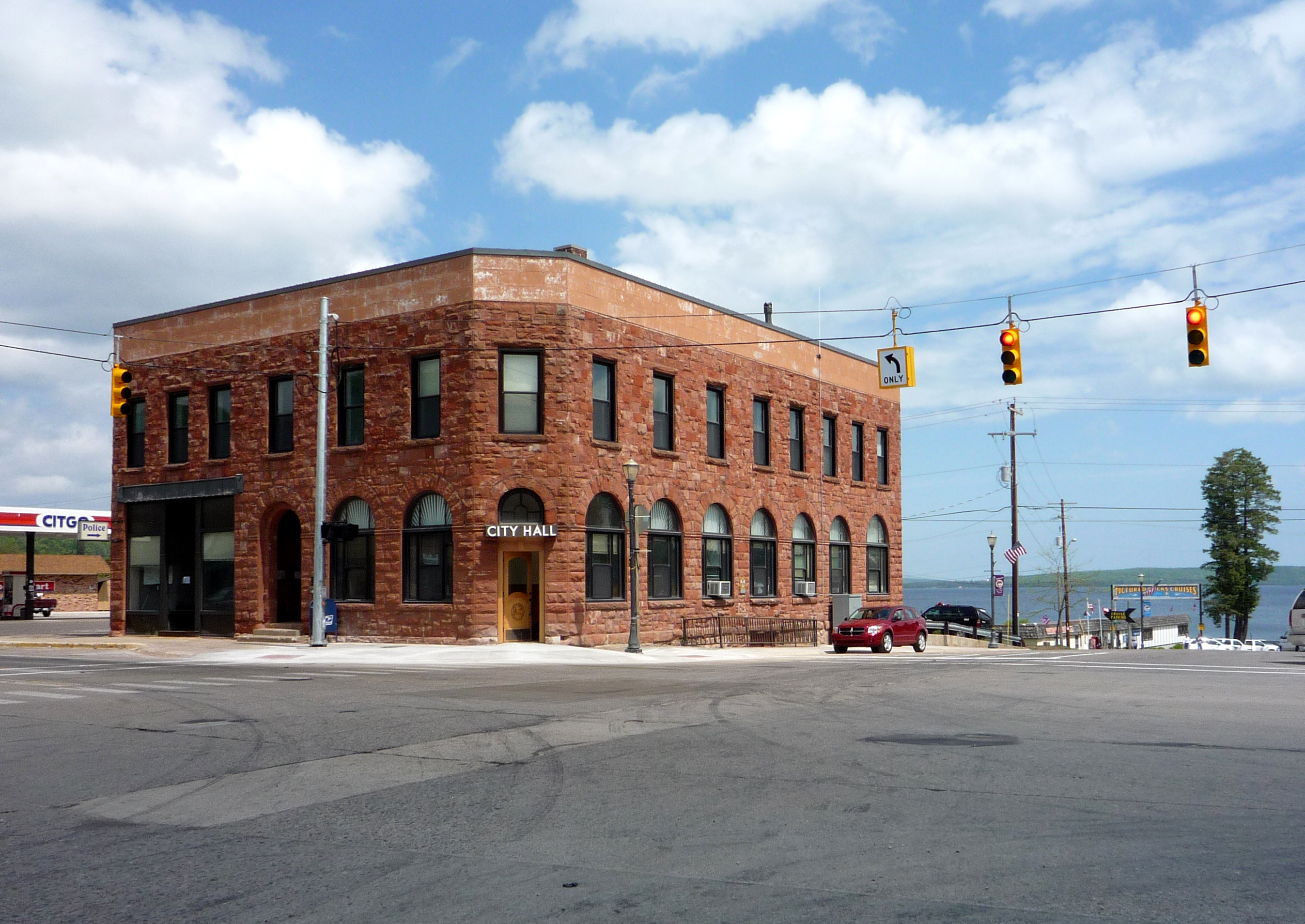 Munising City Hall — with South Bay harbor and Grand Island in background, Michigan.